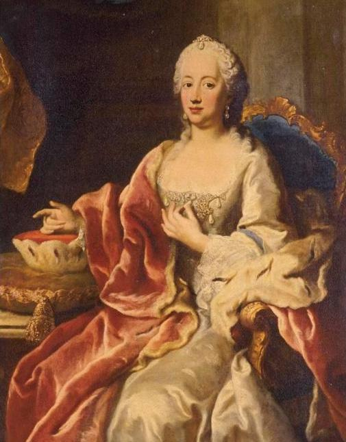 Portrait of Maria Anna of Sulzbach (1722-1790)